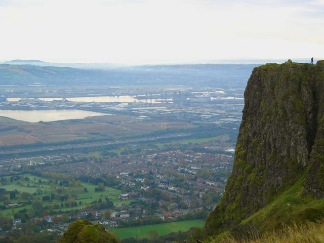 McArts Fort, Cave Hill Also referred to as Napoleon's Nose. McArts is on the right, with a walker on the very top; the rest of the picture is taken up with the view of Belfast that you get from up here!